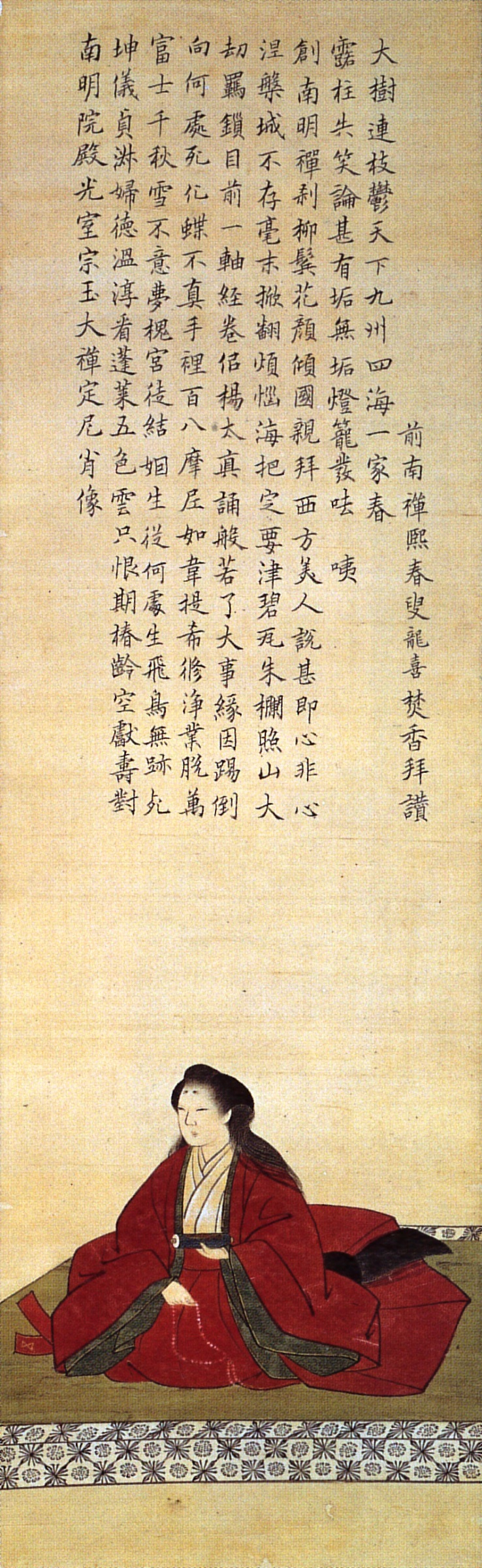 The Portrait of Asahihime who is Tokugawa Ieyasu's second wife and Toyotomi Hideyoshi sister.